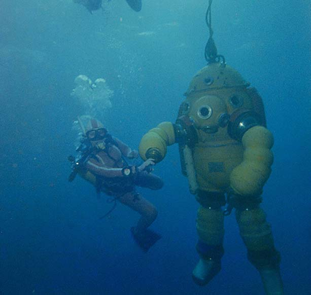 Luciana Civico in risalita dalla immersione del record di profondità con autorespiratore ad aria ARA a 82 metri l'11 NOVEMBRE 1962 nelle vicinanze di Capo Miseno nel golfo di Pozzuoli stringe la pinza dello scafandro di profondità azionato dal s. tenente di vascello Benito Velardi.